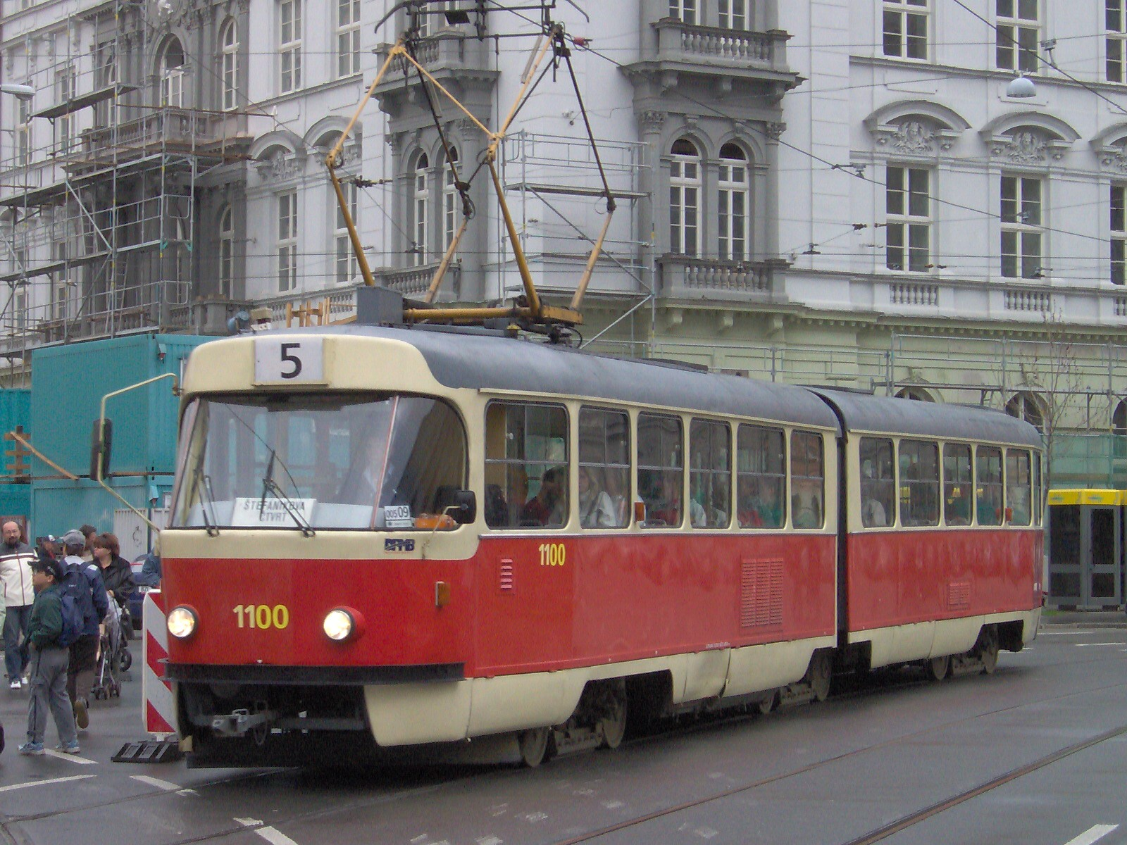 Tatra K2 tram in Brno, Czech Republic